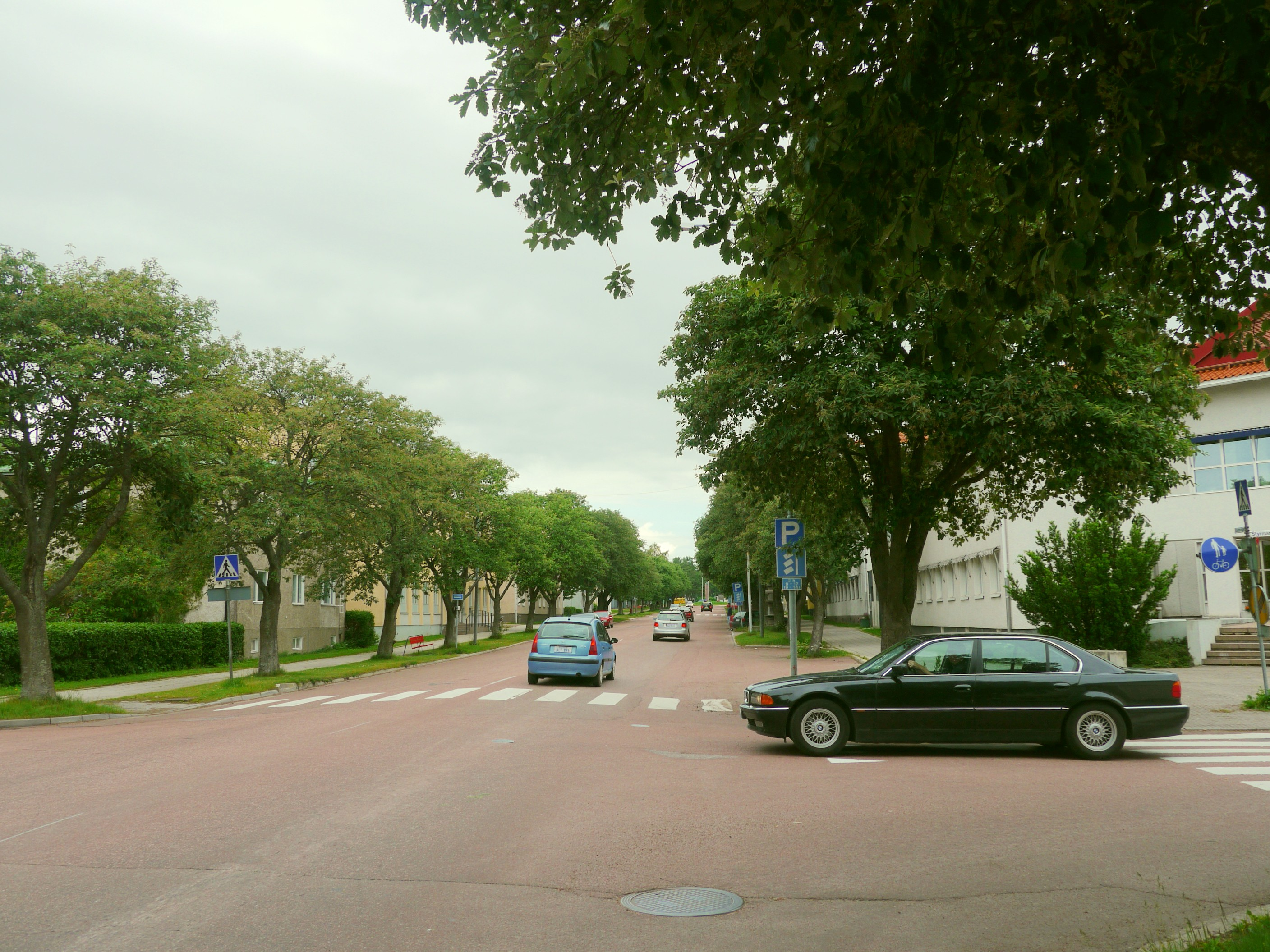 Ålandsvägen in Mariehamn (Åland), crossing Styrmansgatan: Typical streetview with tilia trees.